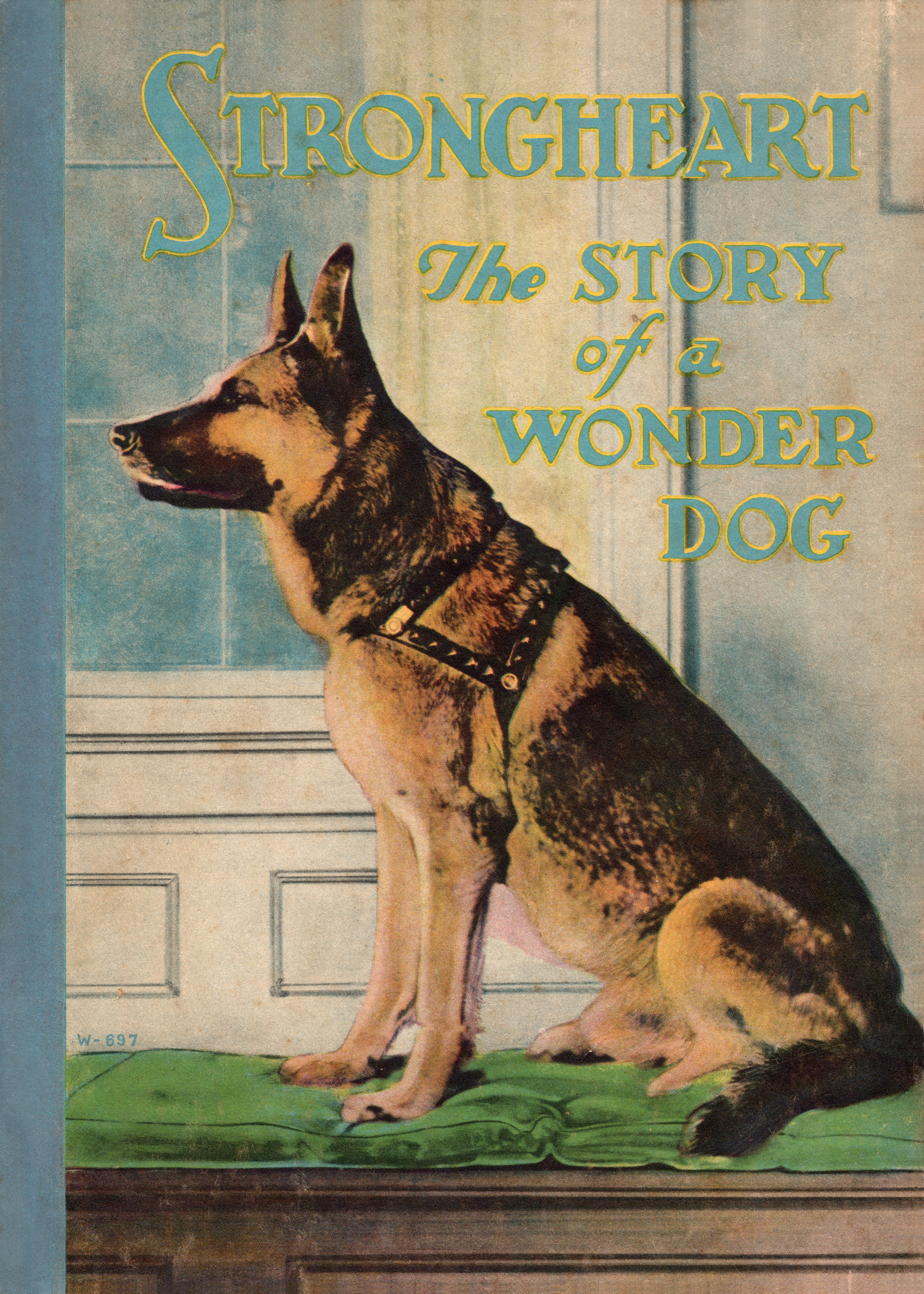 Front cover the the 1926 book Strongheart; The Story of a Wonder Dog